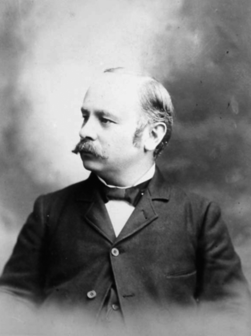 Portrait of Charles Cleveland Nutting (1858-1927)